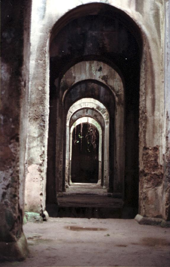 AWIB-ISAW: view of the interior of the large Roman cistern (piscina mirabile) near Misenum by Tom Elliott (1988) copyright: Tom Elliott (used with permission) modern location: Bacoli, Italy ancient place: Misenum Funds for the original digitization of this image were provided by the University of North Carolina at Chapel Hill through a Chancellors Instructional Technology grant in 1998. Image courtesy of the Ancient World Mapping Center .